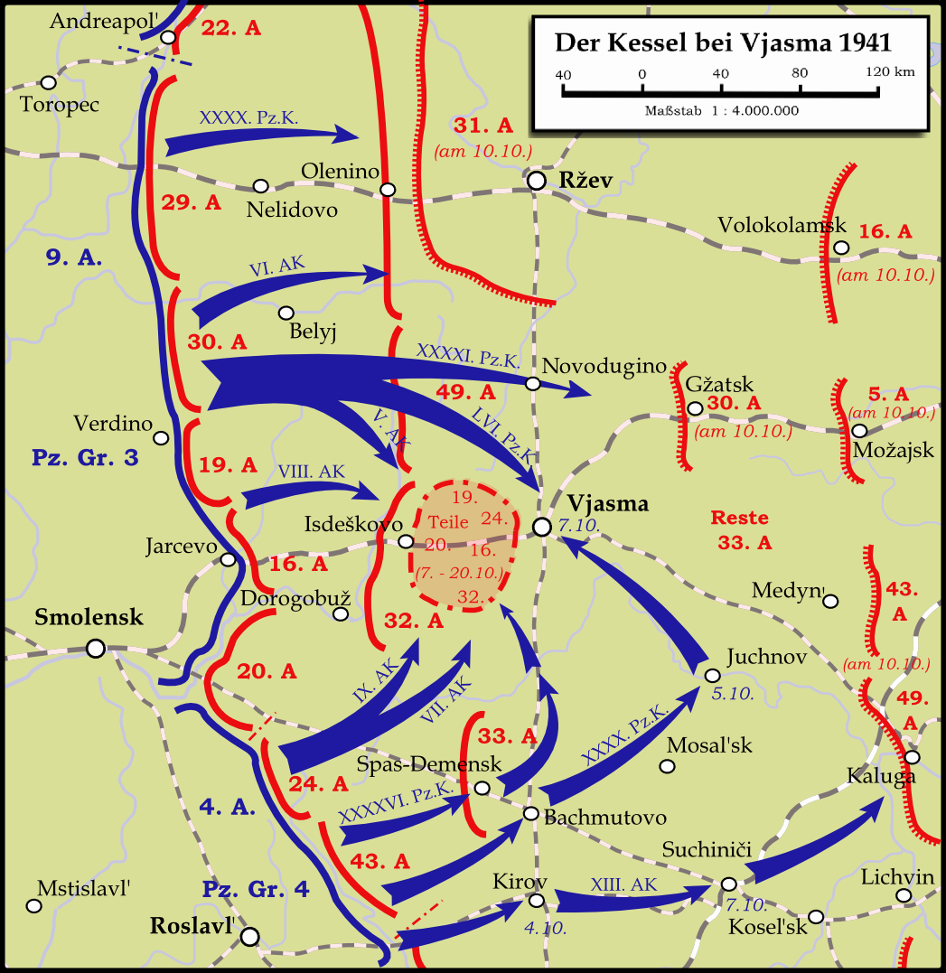 Map showing the Battle near Vyazma (October 2nd — October 20th 1941) during the Second World War (1939—1945) at the Eastern Front. The map is created by Inkscape and is based on the Map 30 in the attachement of the book P.N. Pospelow (Hrsg.): Geschichte des Großen Vaterländischen Krieges der Sowjetunion, Bd.2, Berlin (Ost) 1963. The troop movements have been corrected.